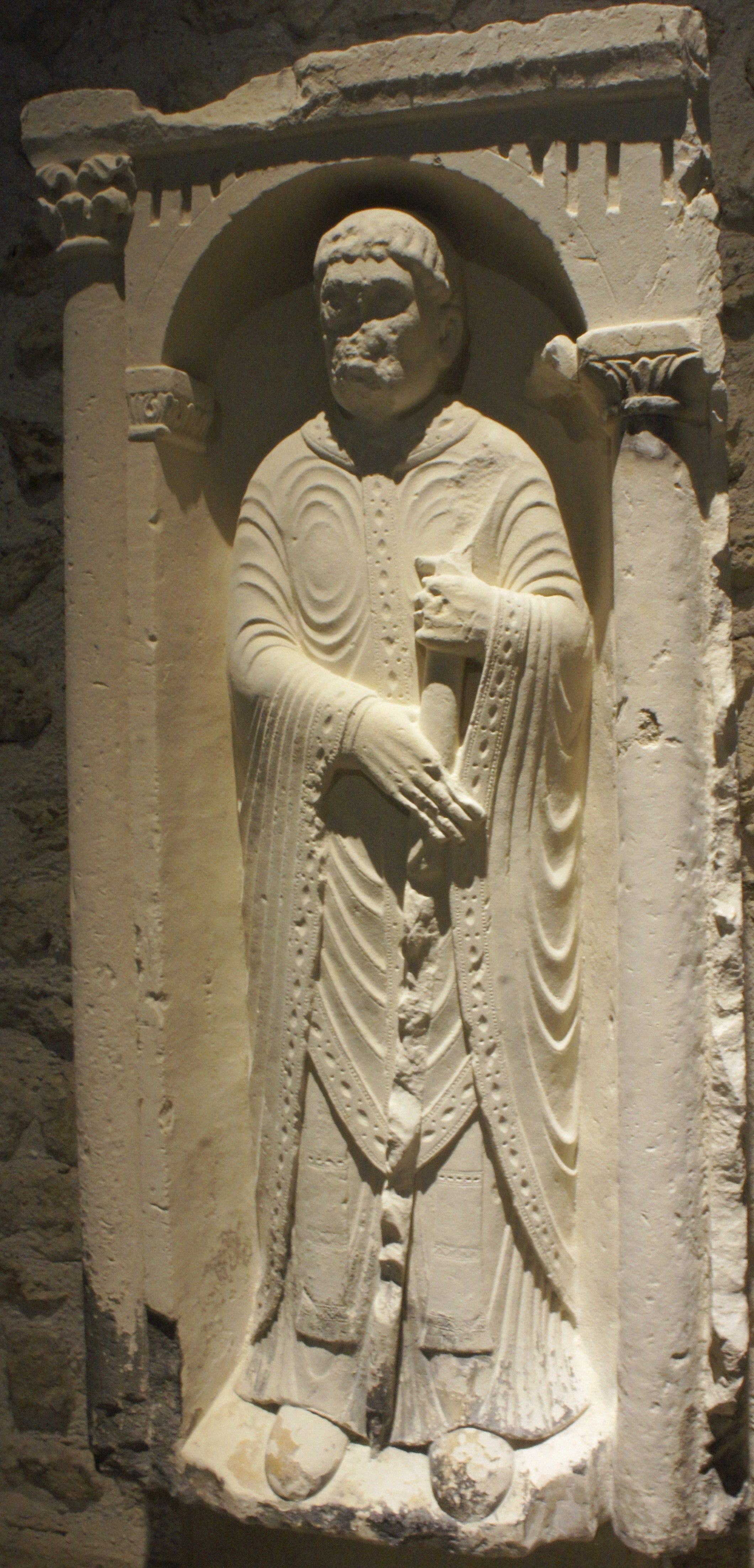 présenté au musée st-Remi.